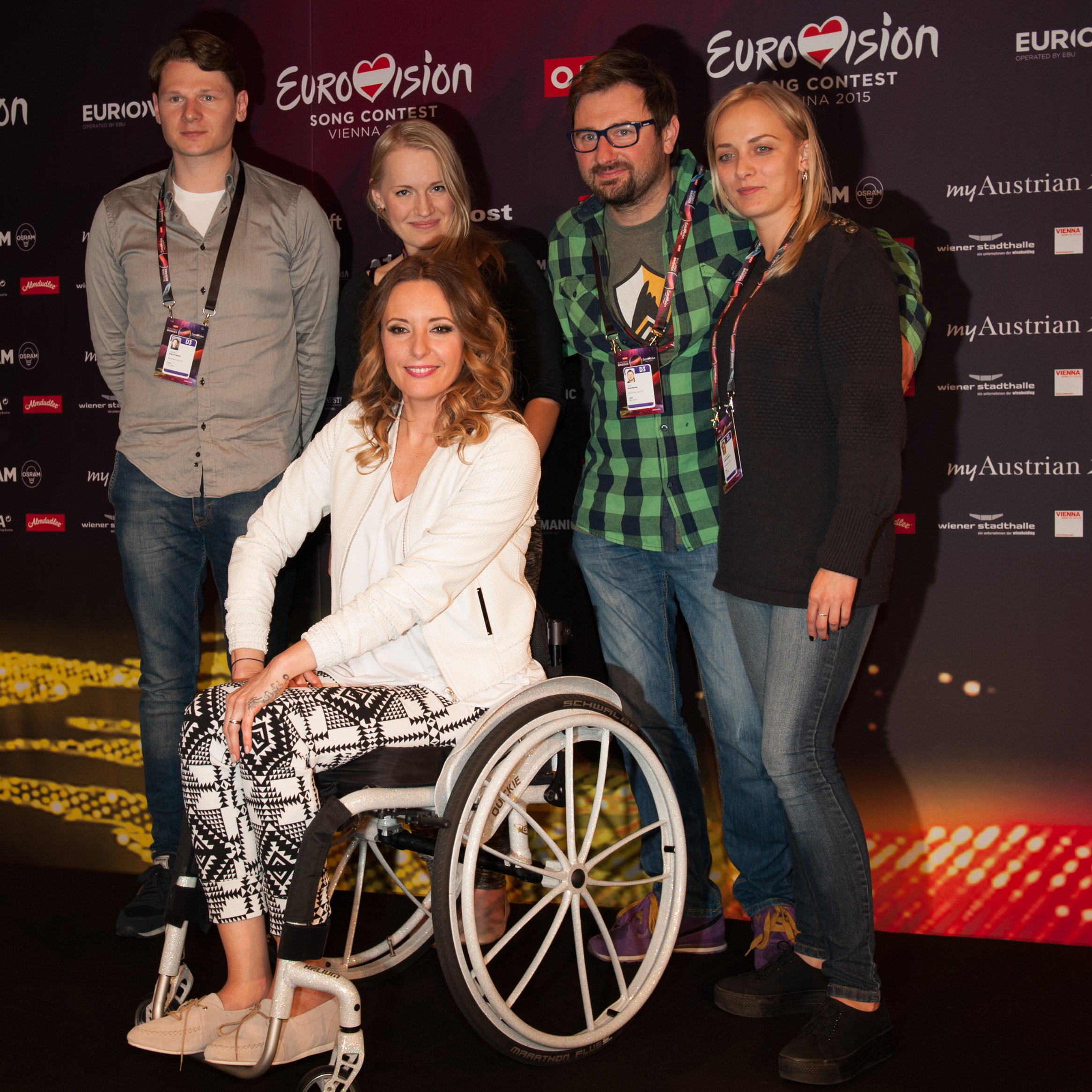 Eurovision Song Contest Vienna 2015: Monika Kuszyńska